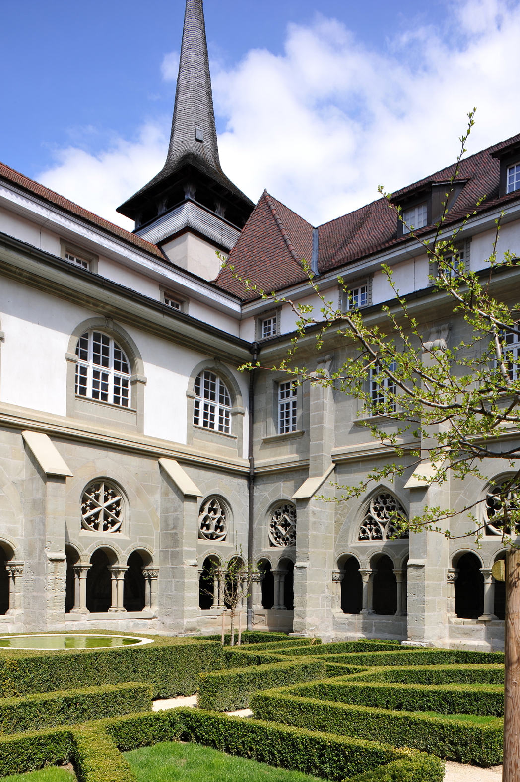 Abbey Altenryf in Hauterive; inner courtyard; Fribourg, Switzerland.